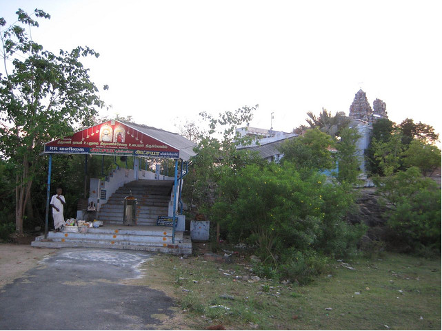 The temple is situated with 50 Km radius of world famous temples such as Kanchipuram, Melmaruvathur, Vellore are Thiruvannamalai.